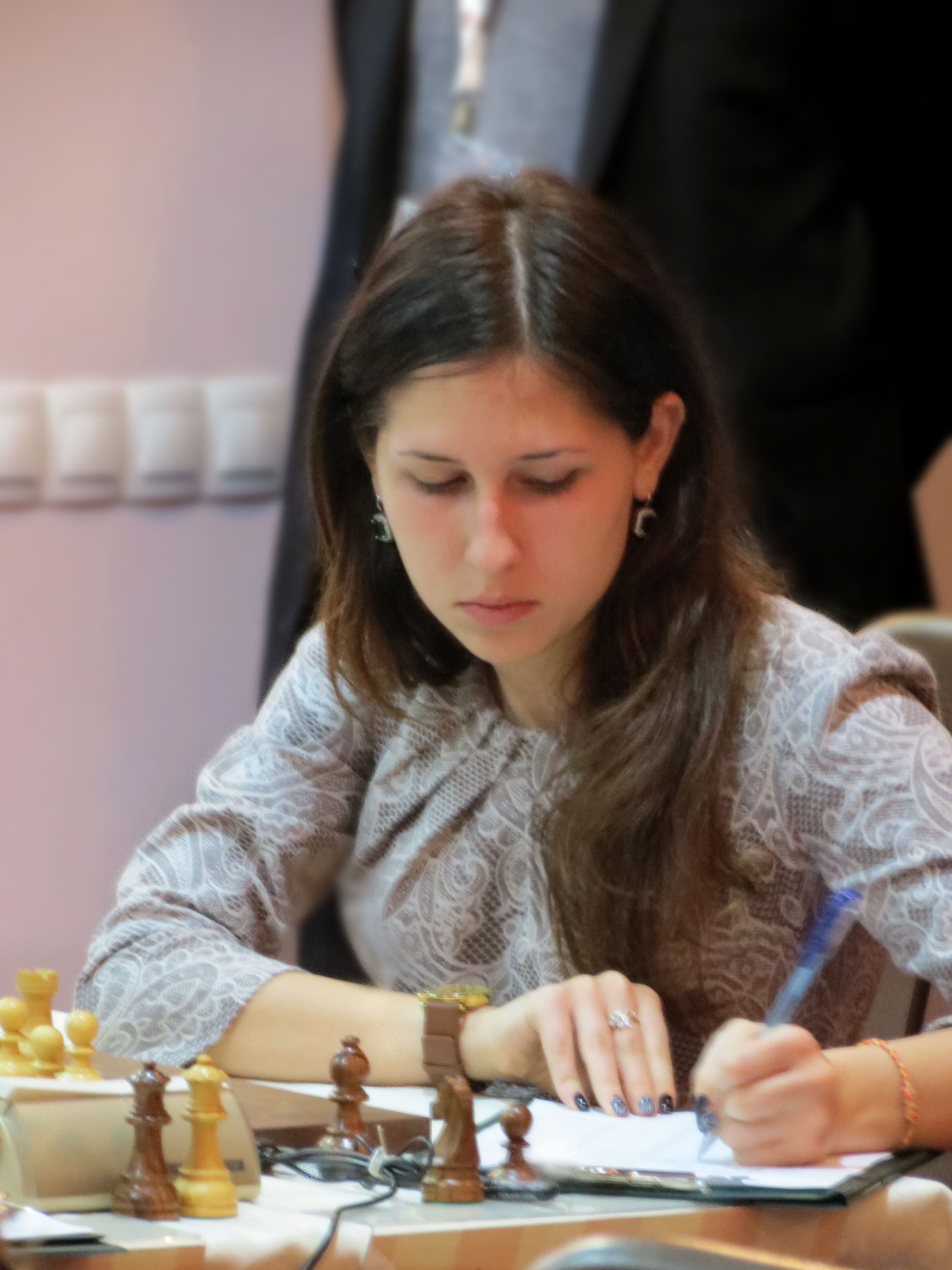 Chess player Maria Tantsiura from Ukraine